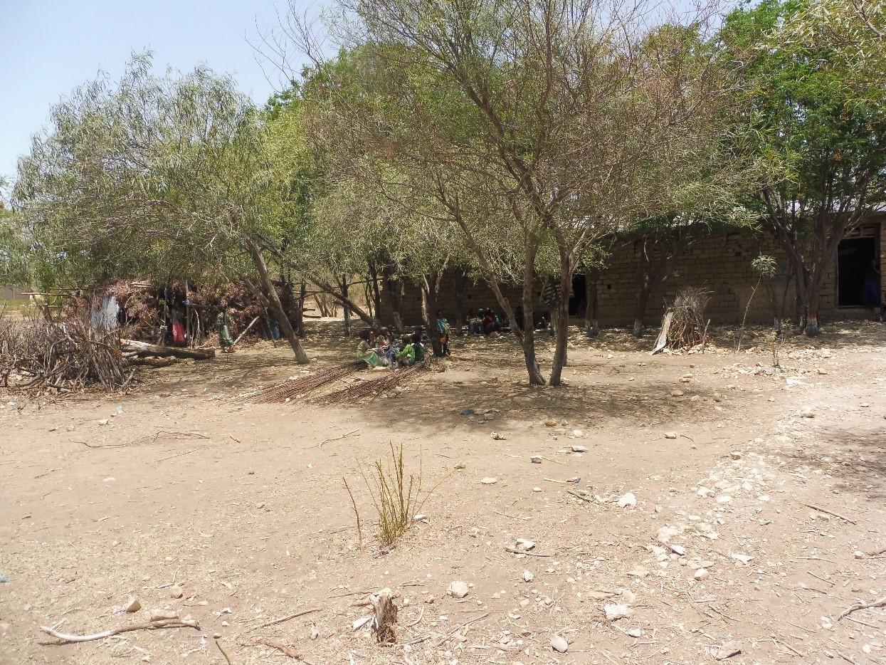 Sesemat old school building